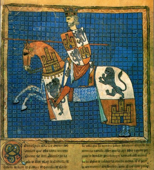 Tumbo A